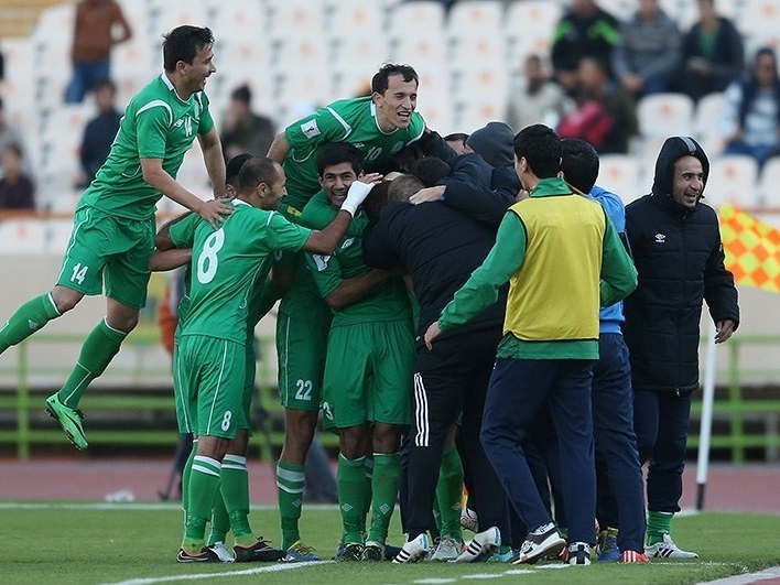 Iran Overpowers Turkmenistan in World Cup Qualifying